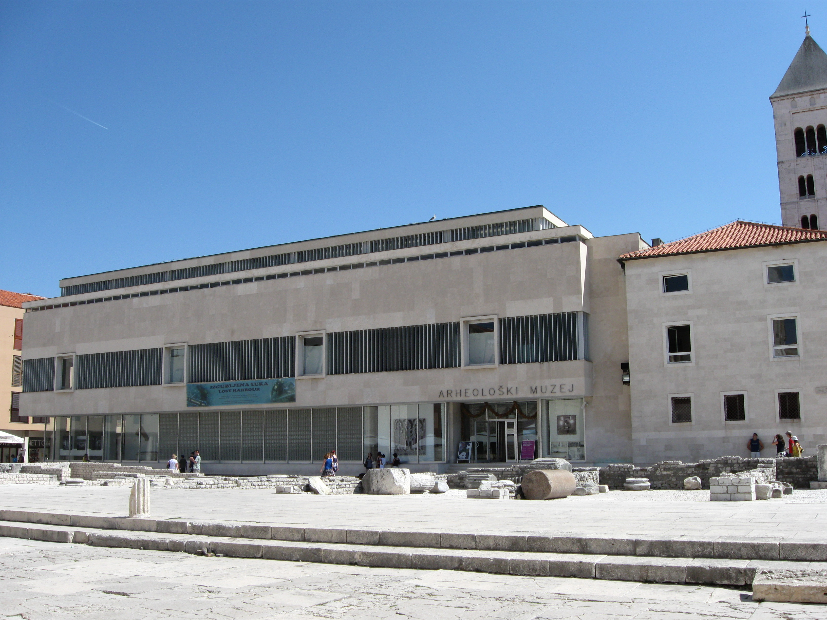 Archeological museum of Zadar